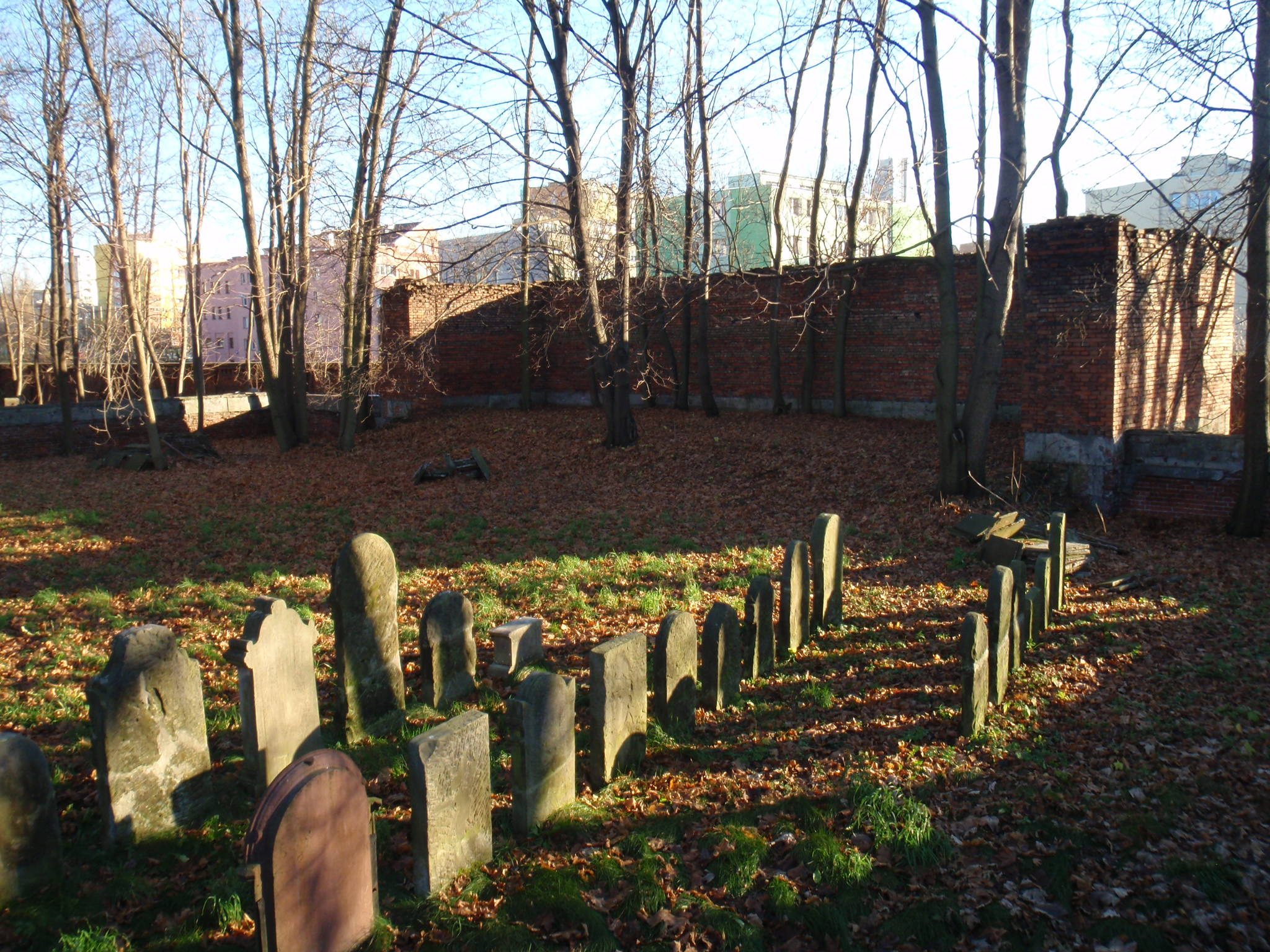 General view of Mausoleum of Jewish Fighters for independence of Poland